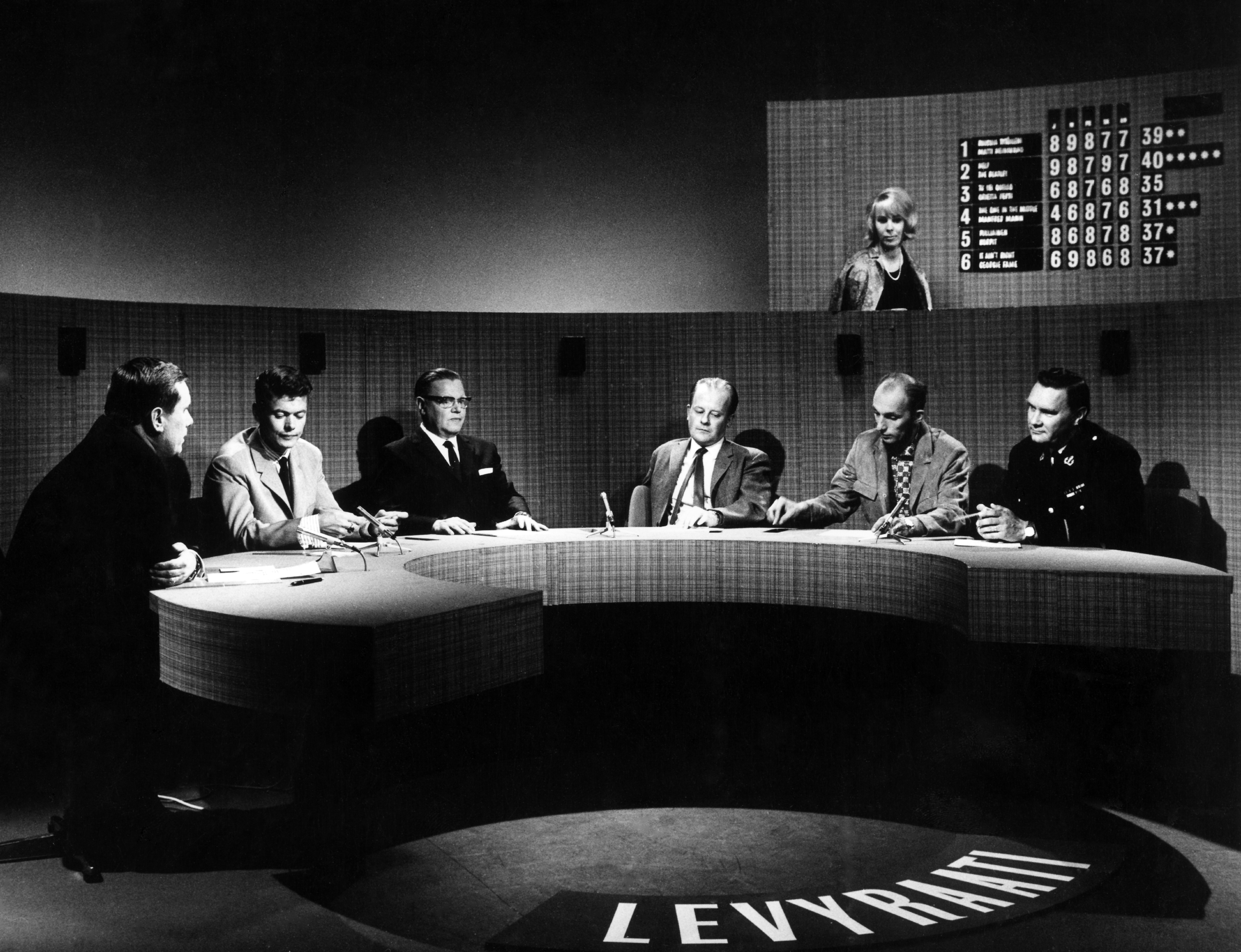 Tesvisio, 1957-1965, the first television channel in Finland. Music programme "The Record Jury". Presenter Jaakko Jahnukainen and the jury: Jopi Eräkare, Mauno Maunola (Maukka Maunola), Paavo Einiö, unknown member and Auvo Nuotio. Finnish Broadcasting Company bought Tamvisio in 1964 and Tesvisio in 1965 and together the channels merged as Yle TV2. Tesvisio. "Levyraati"-ohjelma, juontaja Jaakko Jahnukainen. Raadin jäsenet: Jopi Eräkare, Mauno Maunola (Maukka Maunola), Paavo Einiö, tunnistamaton ja Auvo Nuotio.